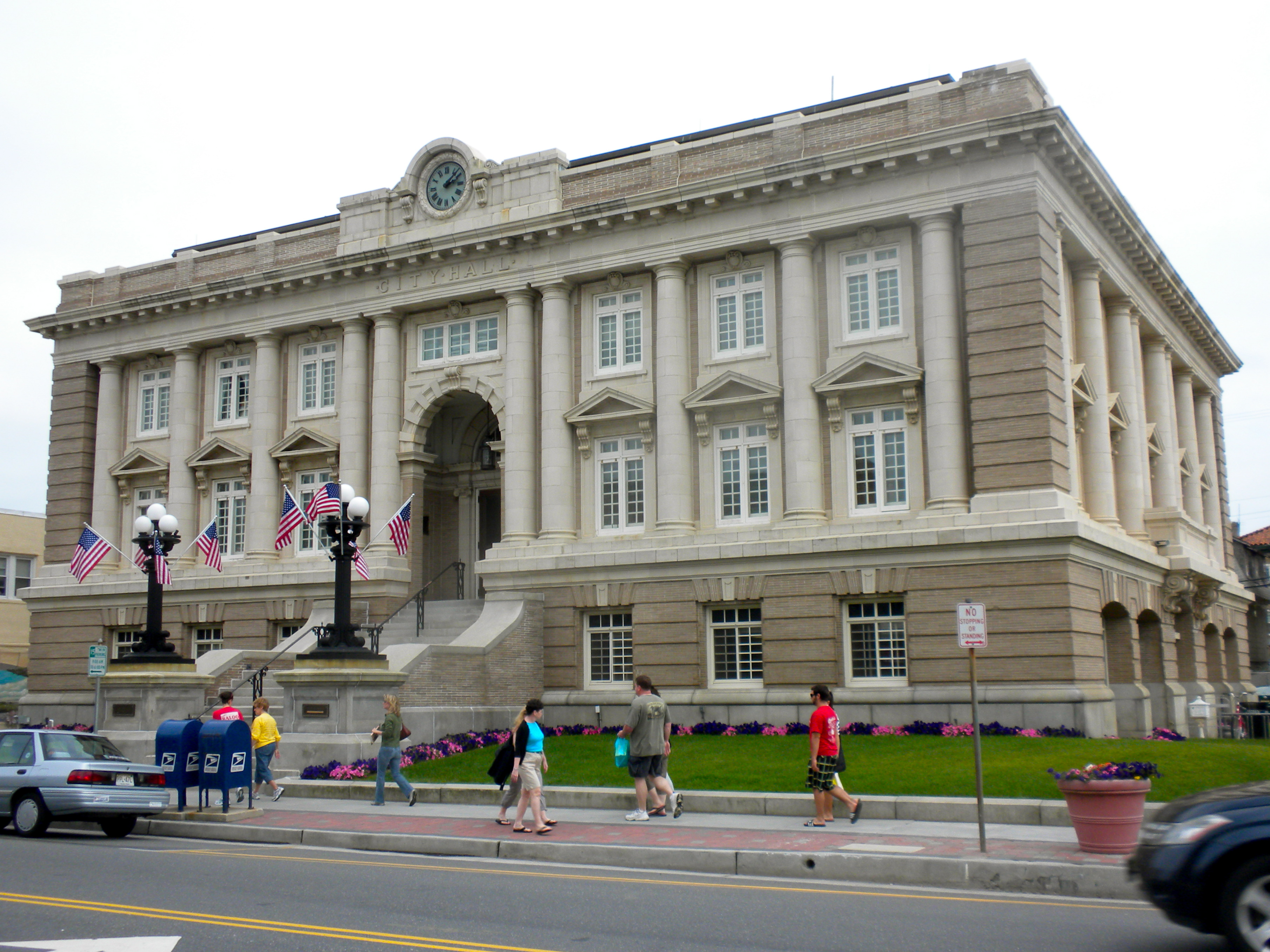 Ocean City City Hall on the NRHP since June 13, 1997. At Jct. of 9th St. and Asbury Ave. in Ocean City, New Jersey.